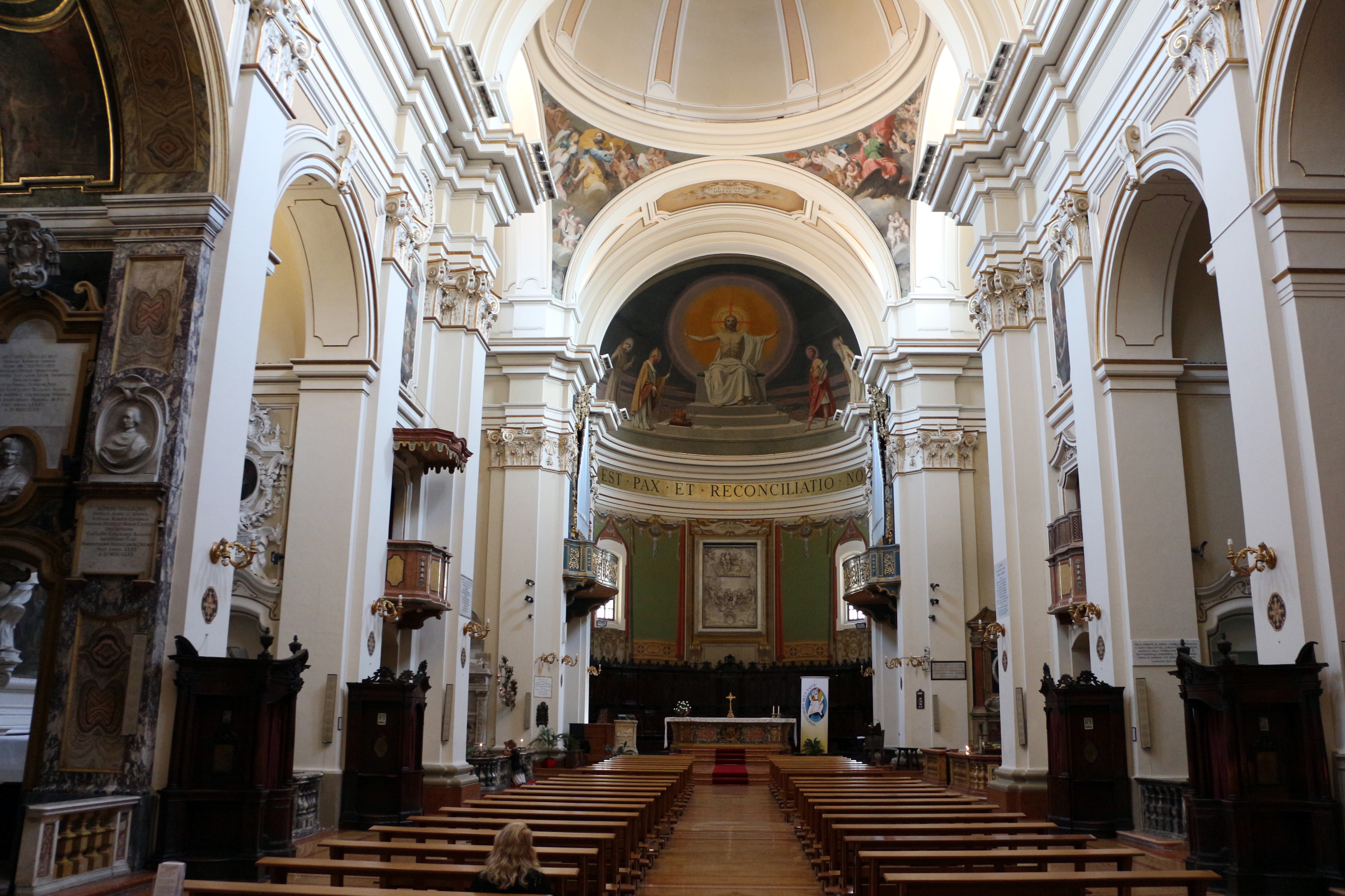 Duomo (Jesi)